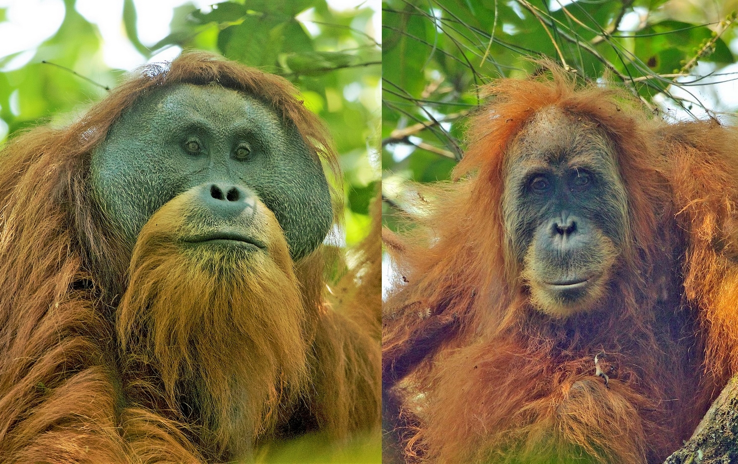 Tapanuli Orangutans (Pongo tapanuliensis): Togus, adult flanged male on the left, and an adult female on the right. Batang Toru Forest, North Sumatran Province, Indonesia.